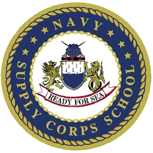 US Navy Supply Corps School Seal